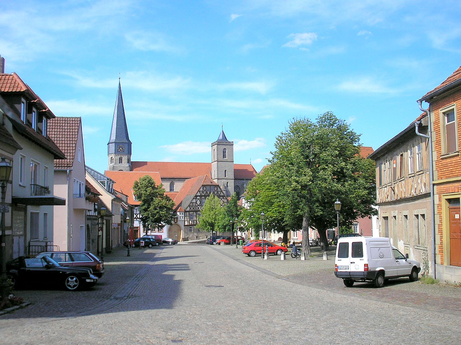 Münnerstadt (Landkreis Bad Kissingen, Lower Franconia, Germany). "Anger", looking north to the parish church Mary Magdalene